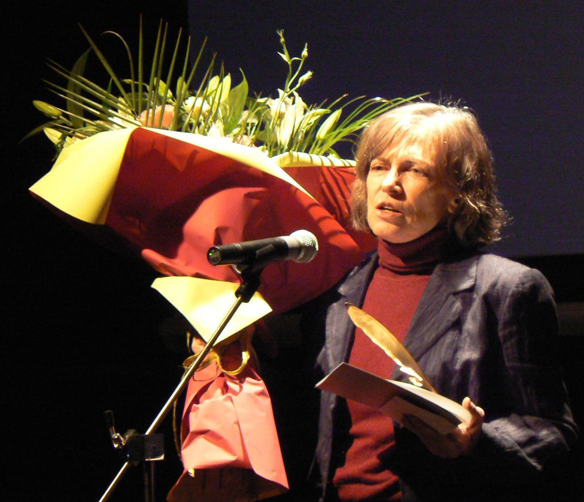 Bulgarian poet Ekaterina Yosifova, laureate of the "Ivan Nikolov" Poetry Prize in 2010